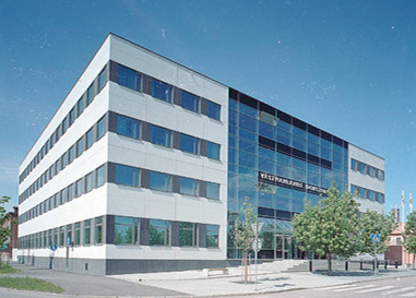 Västmanland court house in Västerås, Sweden